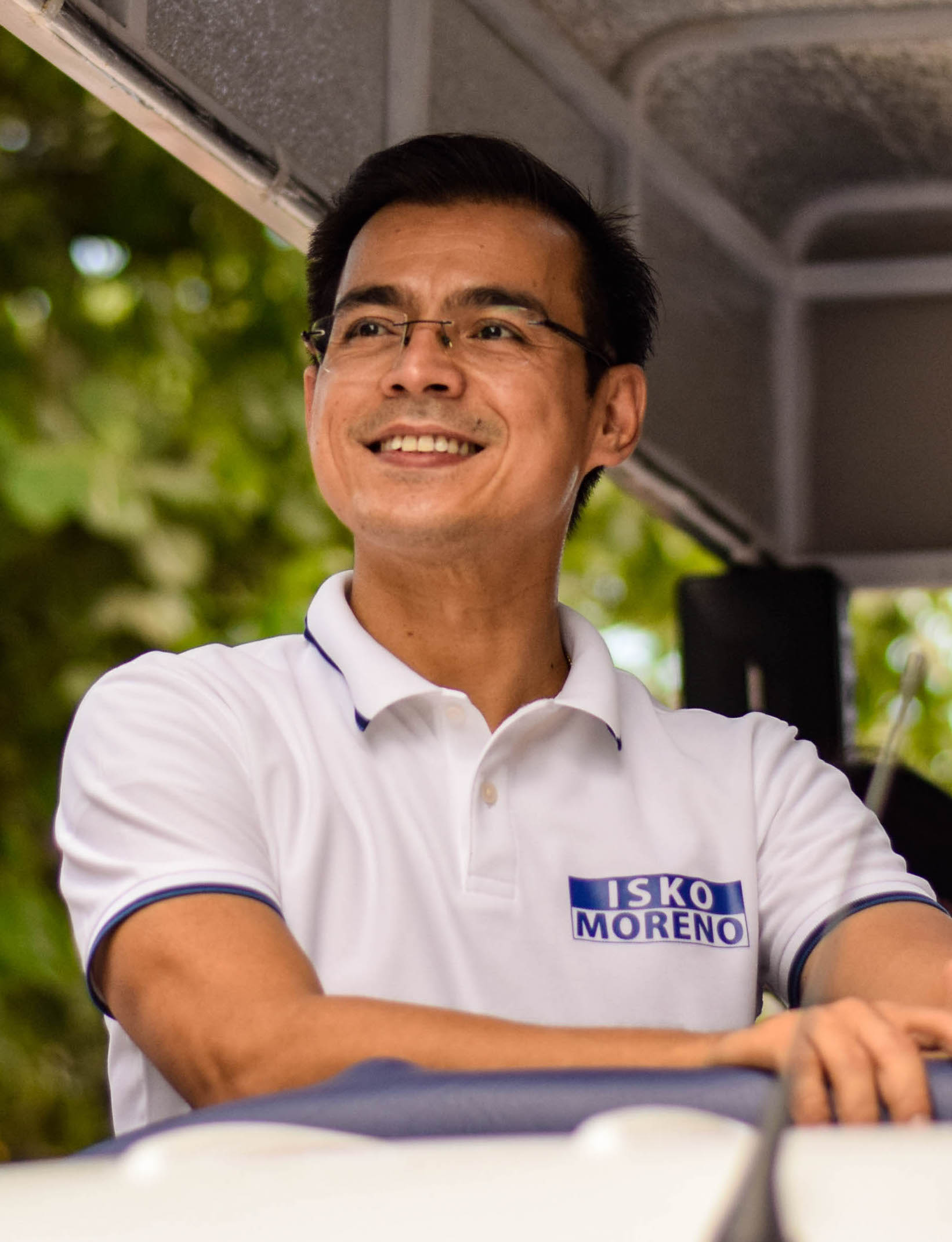 Manila City mayoralty candidate Francisco "Isko Moreno" Domagoso